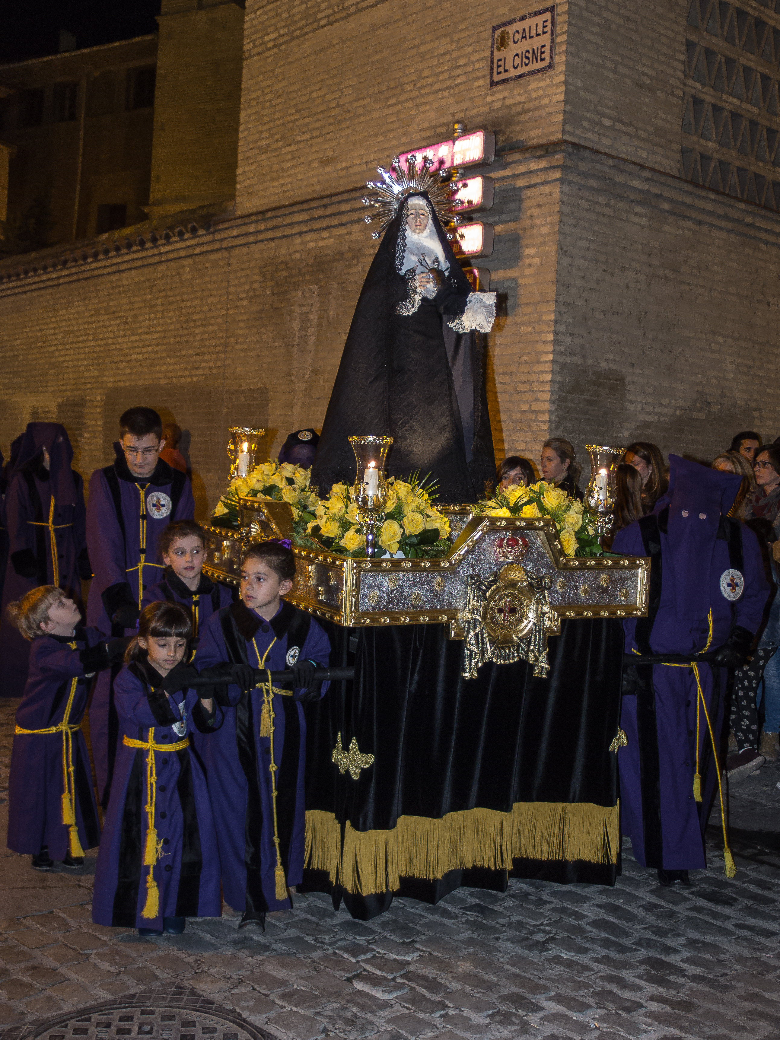 OLYMPUS DIGITAL CAMERA This is a photography of a Folklore festival in Spain (Wikidata id Q9075892).